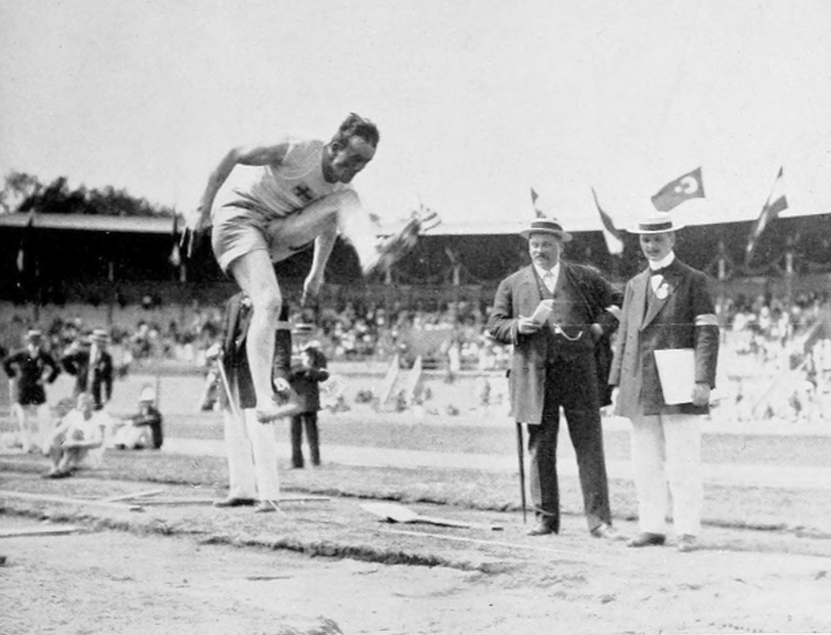 Hugo Wislander during the decathlon competition at the 1912 Summer Olympics - long jump